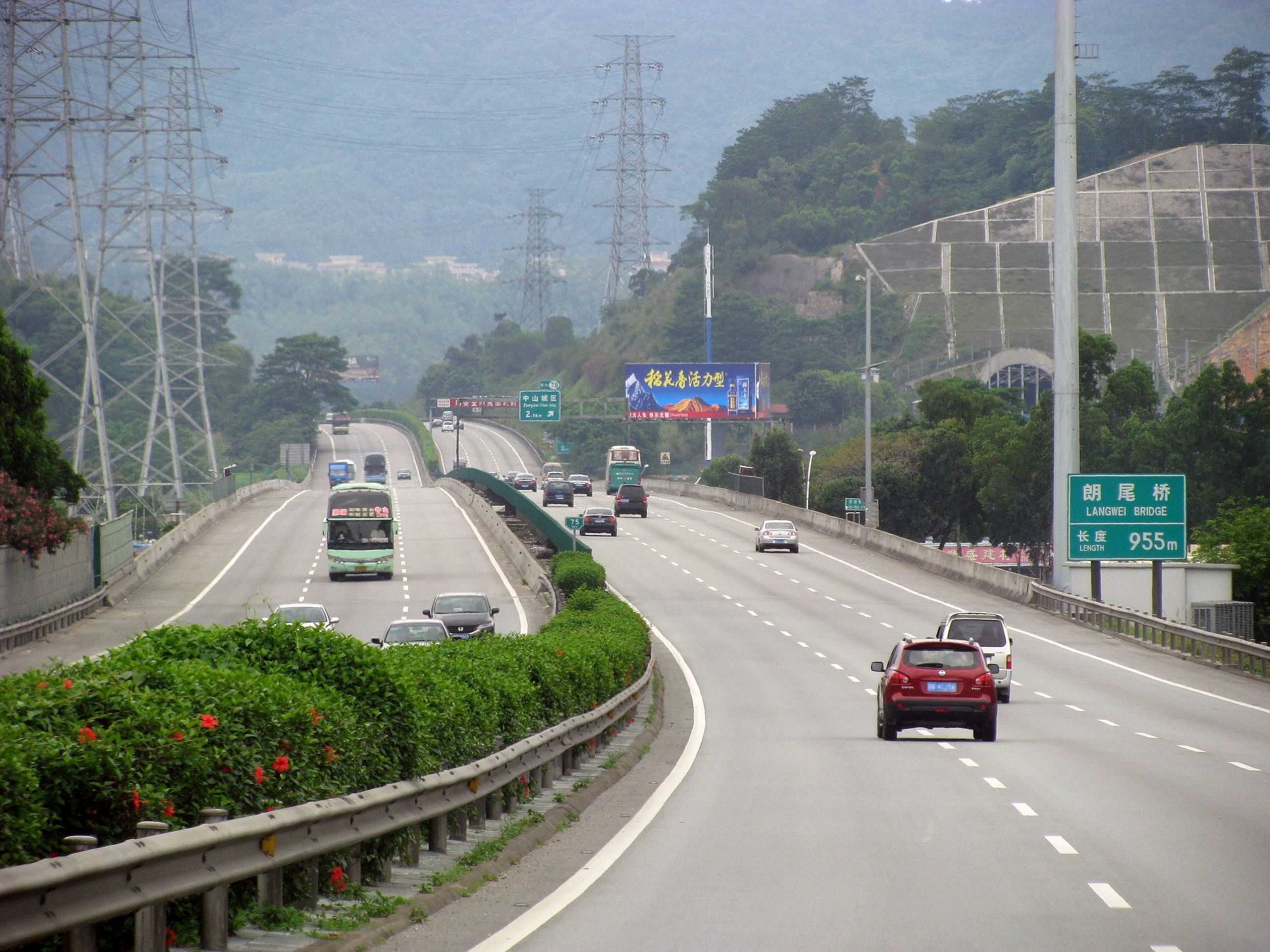 The G4W Guangzhou–Macau Expressway in China.